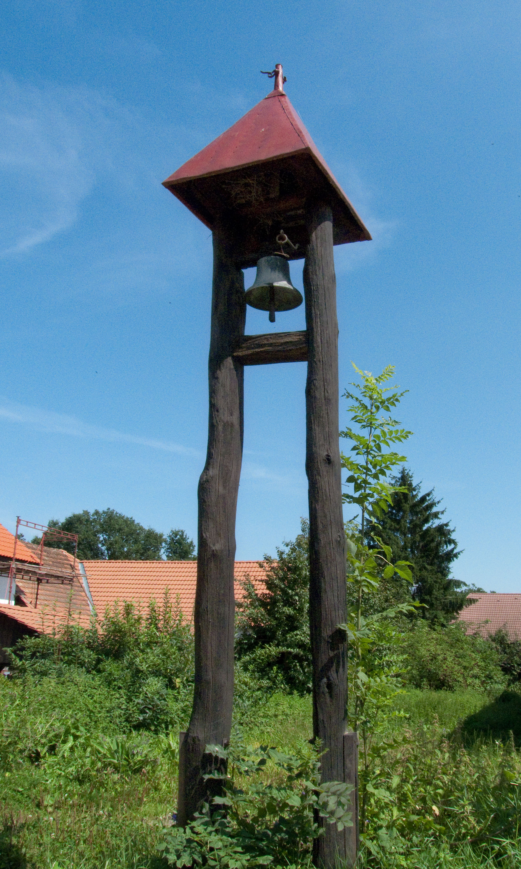 Bell tower in Holubovská Bašta, České Budějovice district, Czech Republic